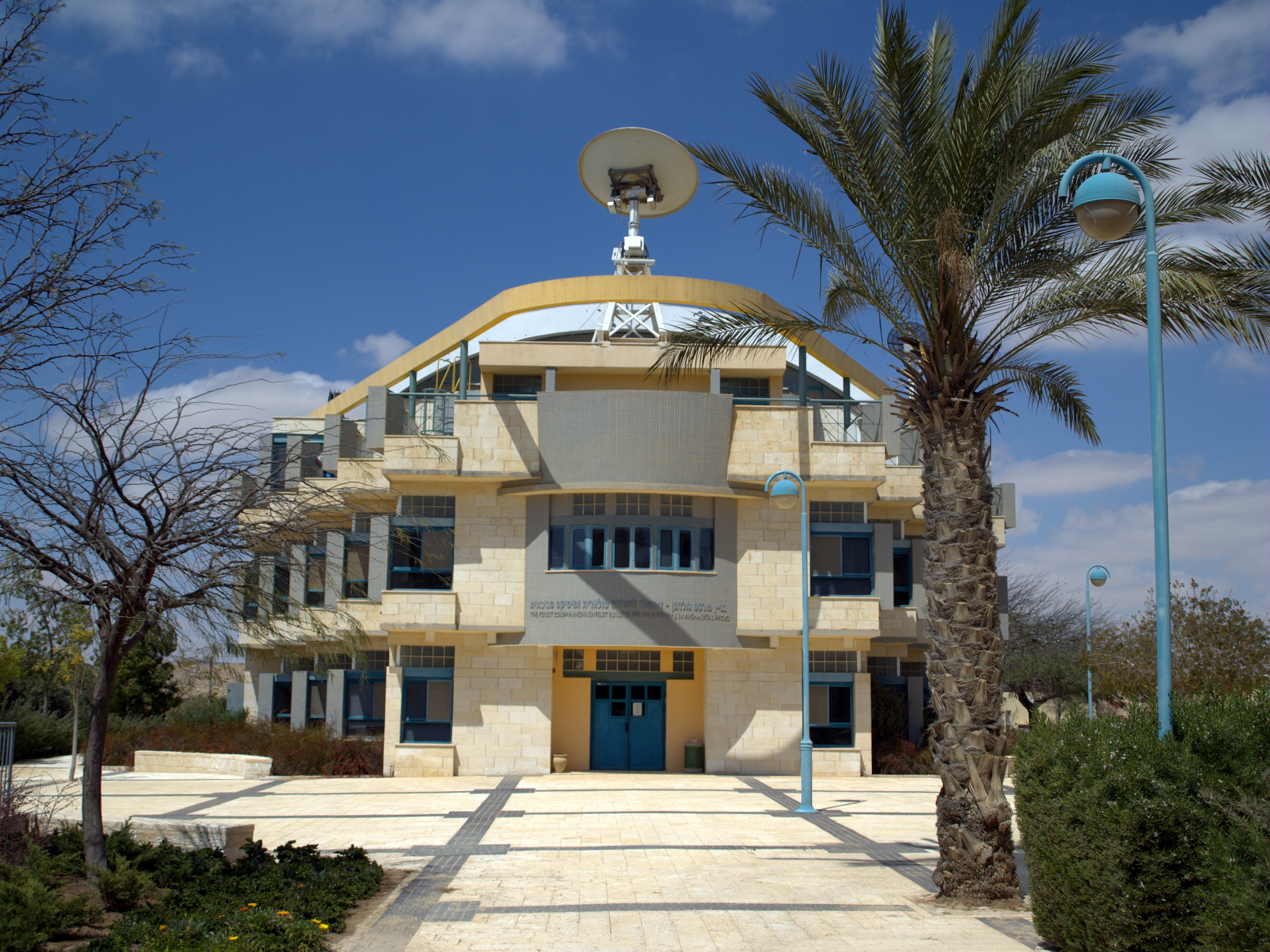 The Solar Energy & Environmental Research building at the Jacob Blaustein Institutes for Desert Research.